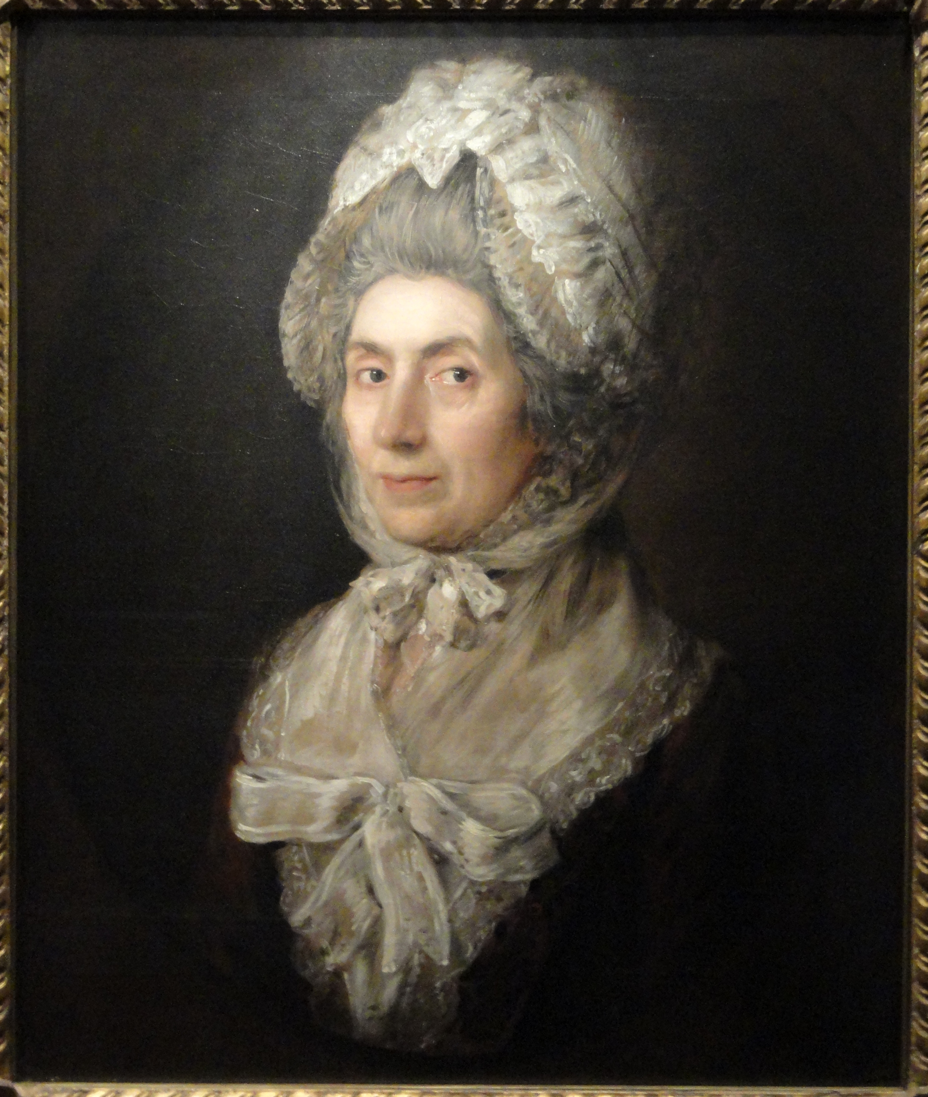 Exhibit in the Art Institute of Chicago, Chicago, Illinois, USA. This artwork is in the public domain because the artist died more than 70 years ago.